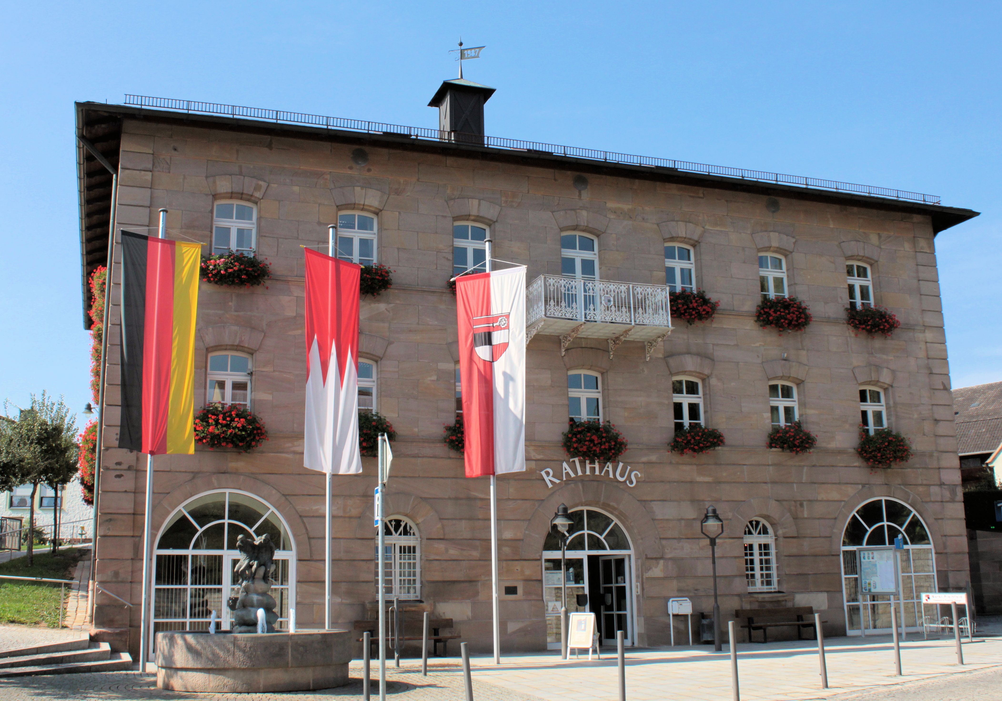 Town hall of Pleinfeld, Landkreis Weißenburg-Gunzenhausen, Bavaria, Germany